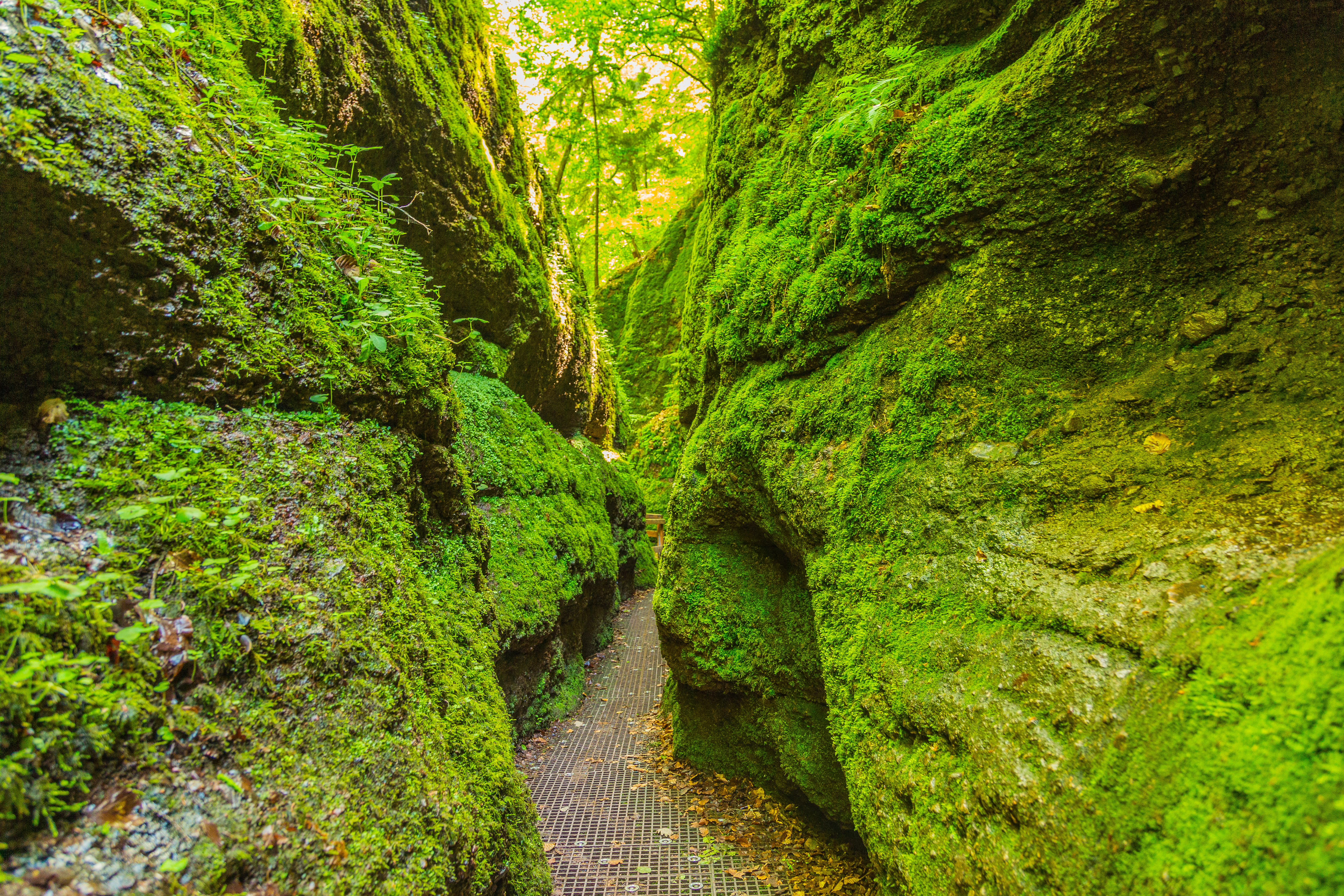 Slot canyon of the Dragon Gorge (Drachenschlucht) near Eisenach, Thuringia, Germany. The gorge belongs to the nature reserve Wälder mit Schluchten zwischen Wartburg und Hohe Sonne.